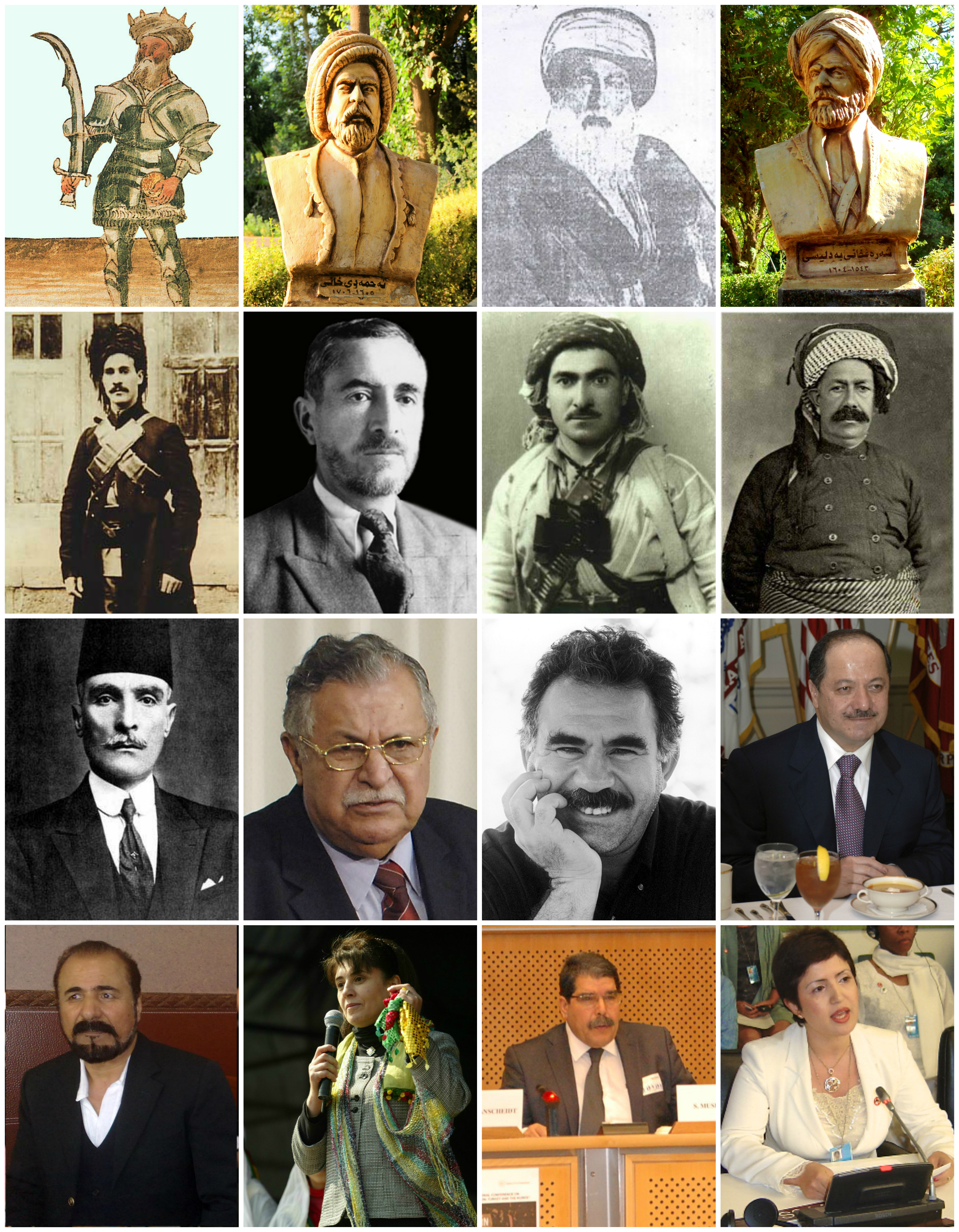 Kurds